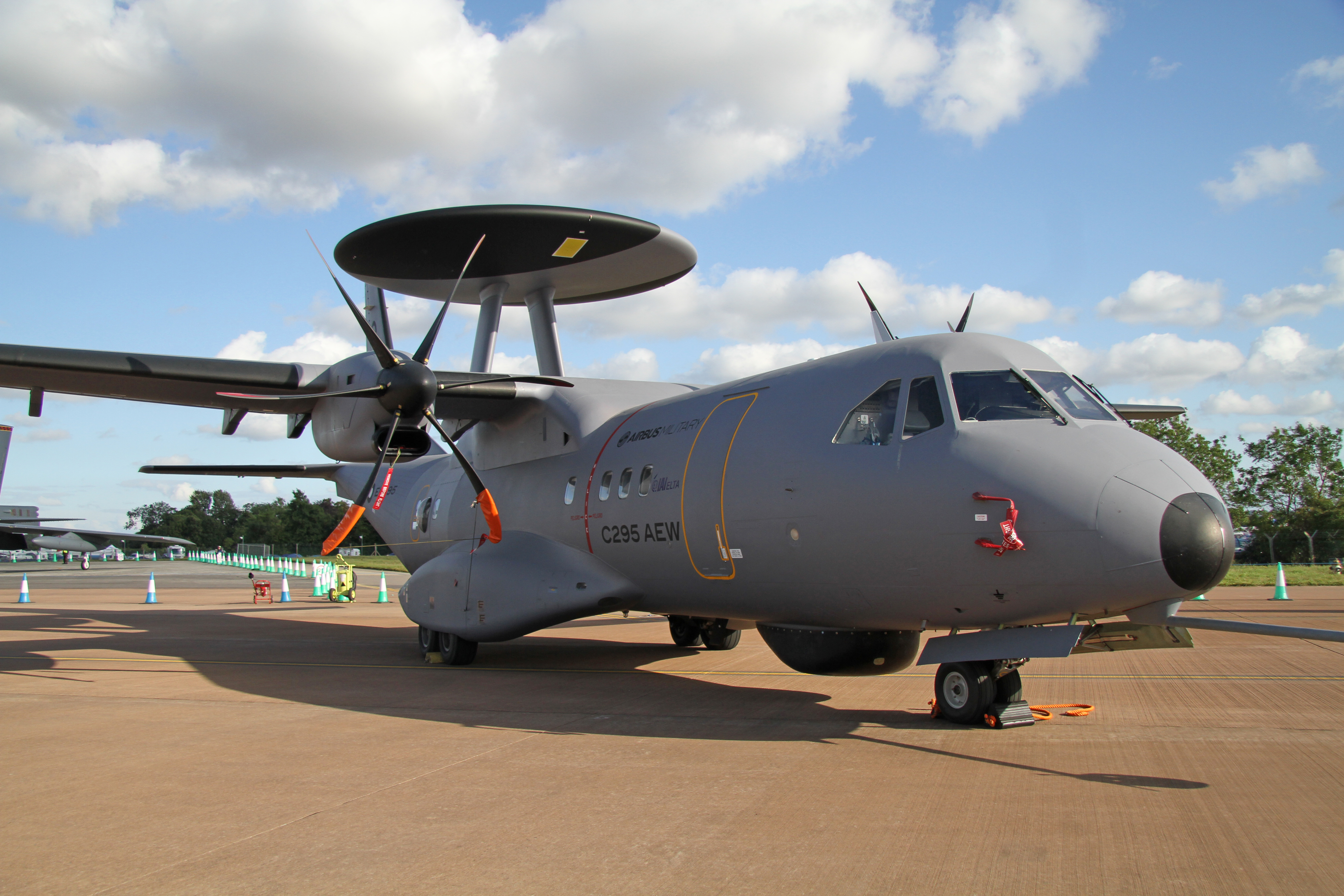 RIAT 2011